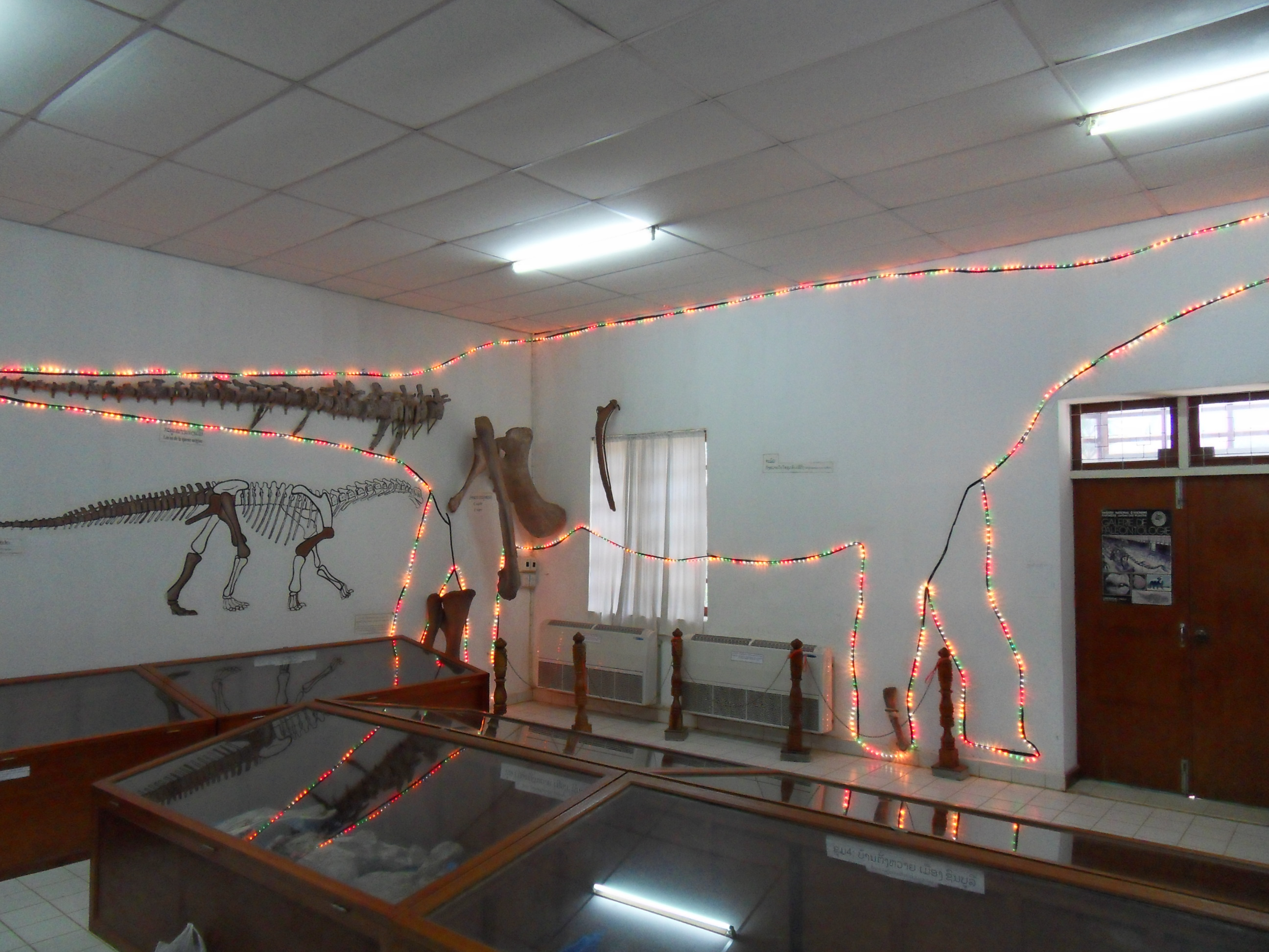 Dinosaur's Museum in Savannakhet, Laos